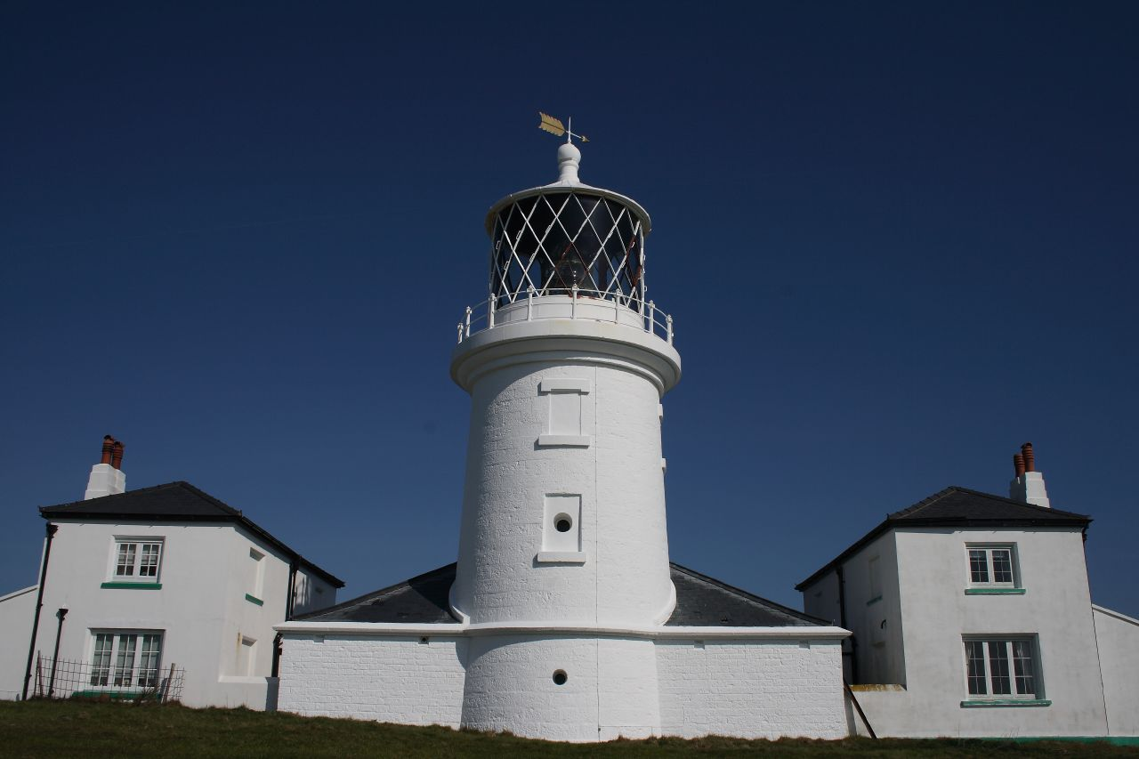 Caldey Island (Ynys Byr) lighthouse, Southern Pembrokeshire (Sir Benfro), south Wales. Long since converted to automatic operation by Trinity House, the lighthouse stands to the south of the island, from which it warns shipping of hazards such as the nearby St. Margaret's Island and also the Woolhouse Rocks, to the east of Caldey. On a clear day, you can see Lundy Island, 15 miles distant, from here.